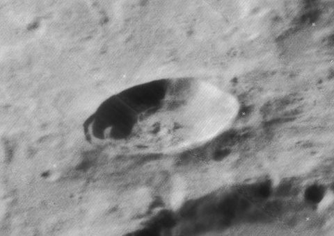 Oblique view of Thales, facing west, on the moon.